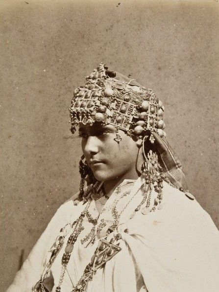 Kabyle woman (Algeria), Neurdein Frères, ca 1870